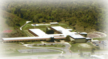 Aerial picture of Sampson Elementary School, Guantamano Bay Cuba